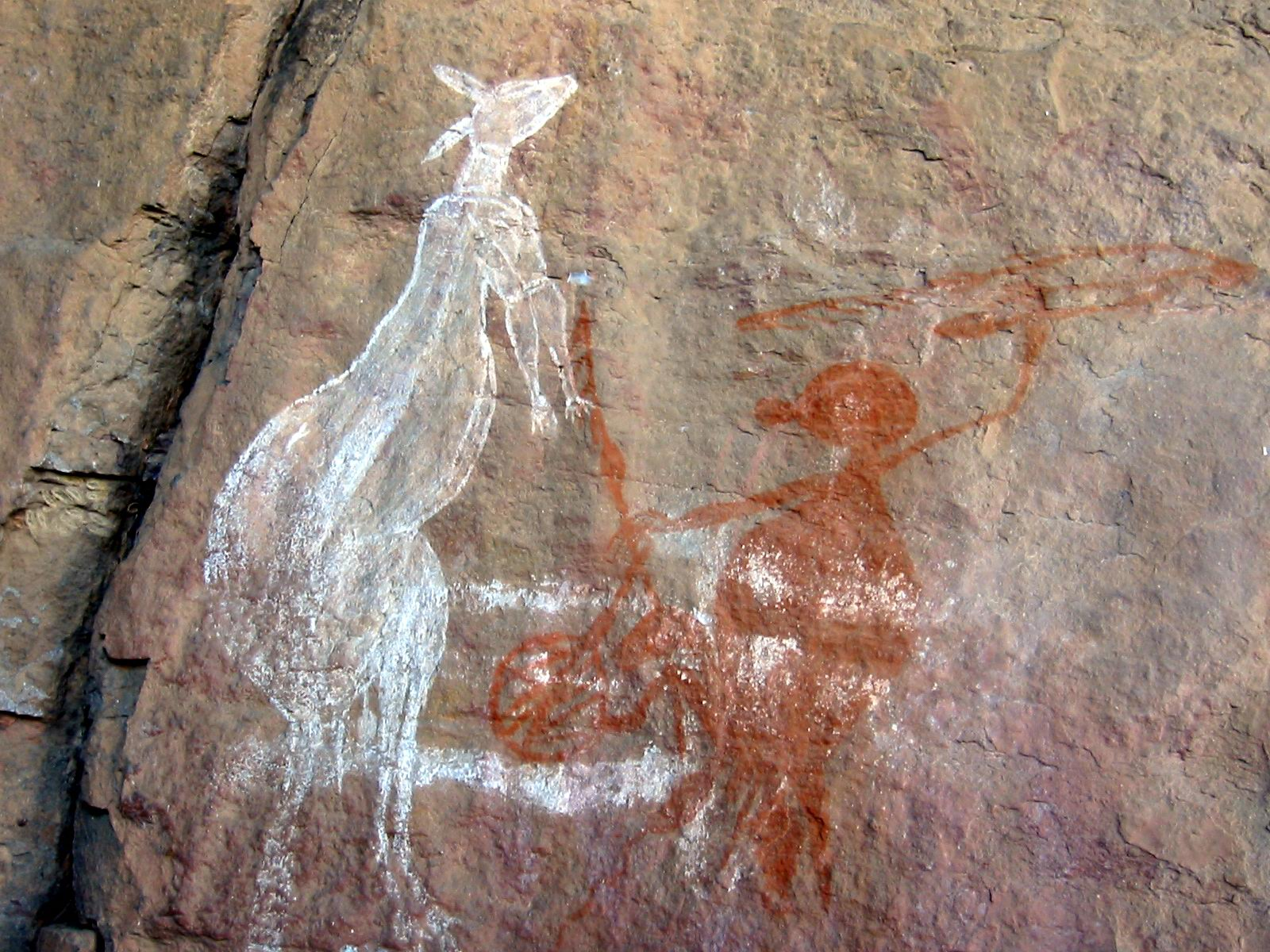 Aboriginal Rock Art, Anbangbang Rock Shelter, Kakadu National Park, Australia